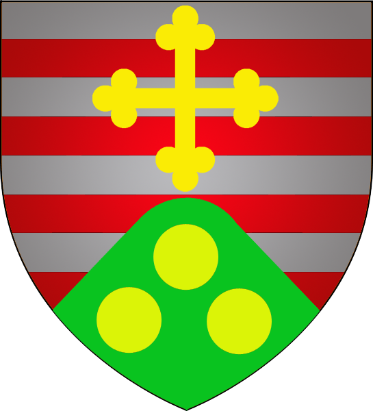 Coat of arms of the municipality of Boevange-sur-Attert, Luxembourg